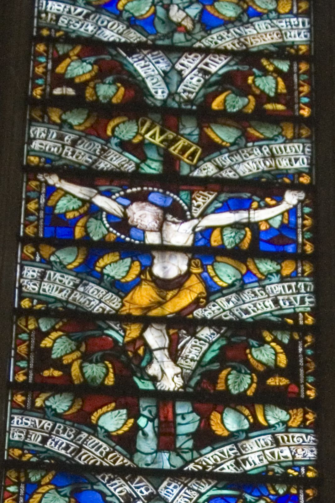 Carcassonne - La Cité - Basilique Saint-Nazaire - "Tree of Life"-Window 1853 - Crucifixion